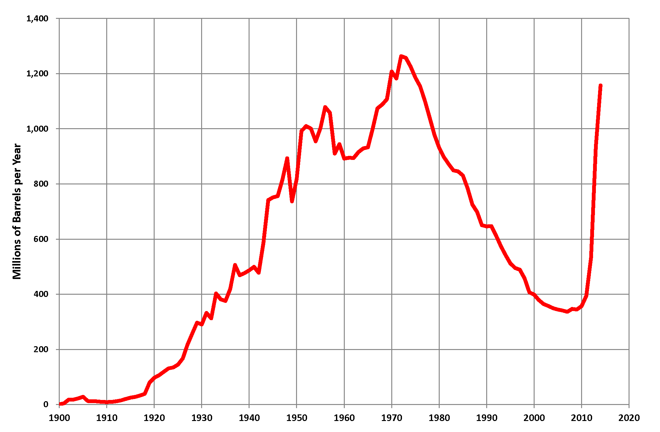 Annual Texas crude oil production from 1935 to 2012, based on data from the Texas Railroad Commission website